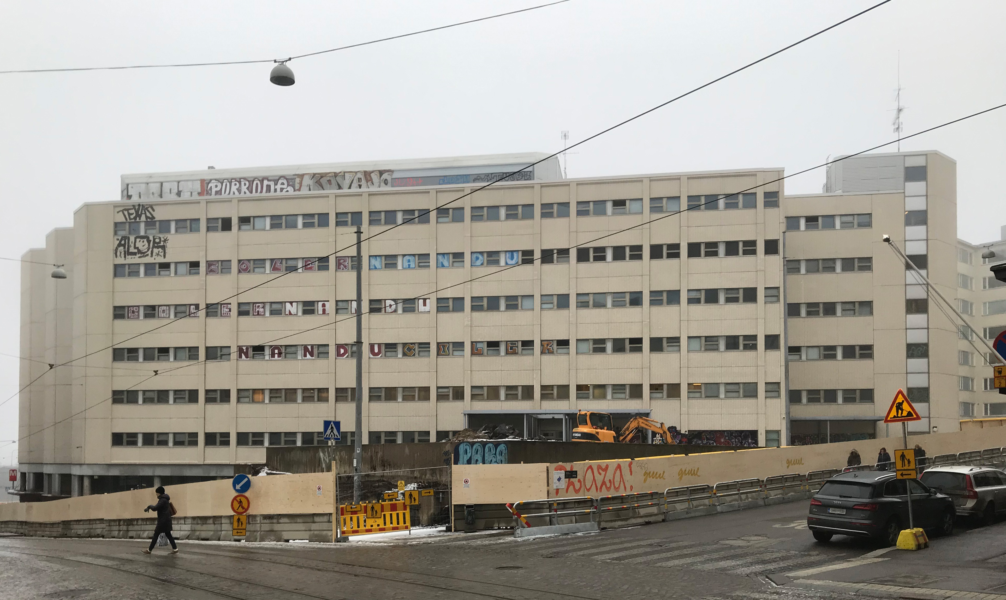 Porthaninkatu 2 (Siltasaarenkatu 13) Architect Jaakko Laapotti 1979